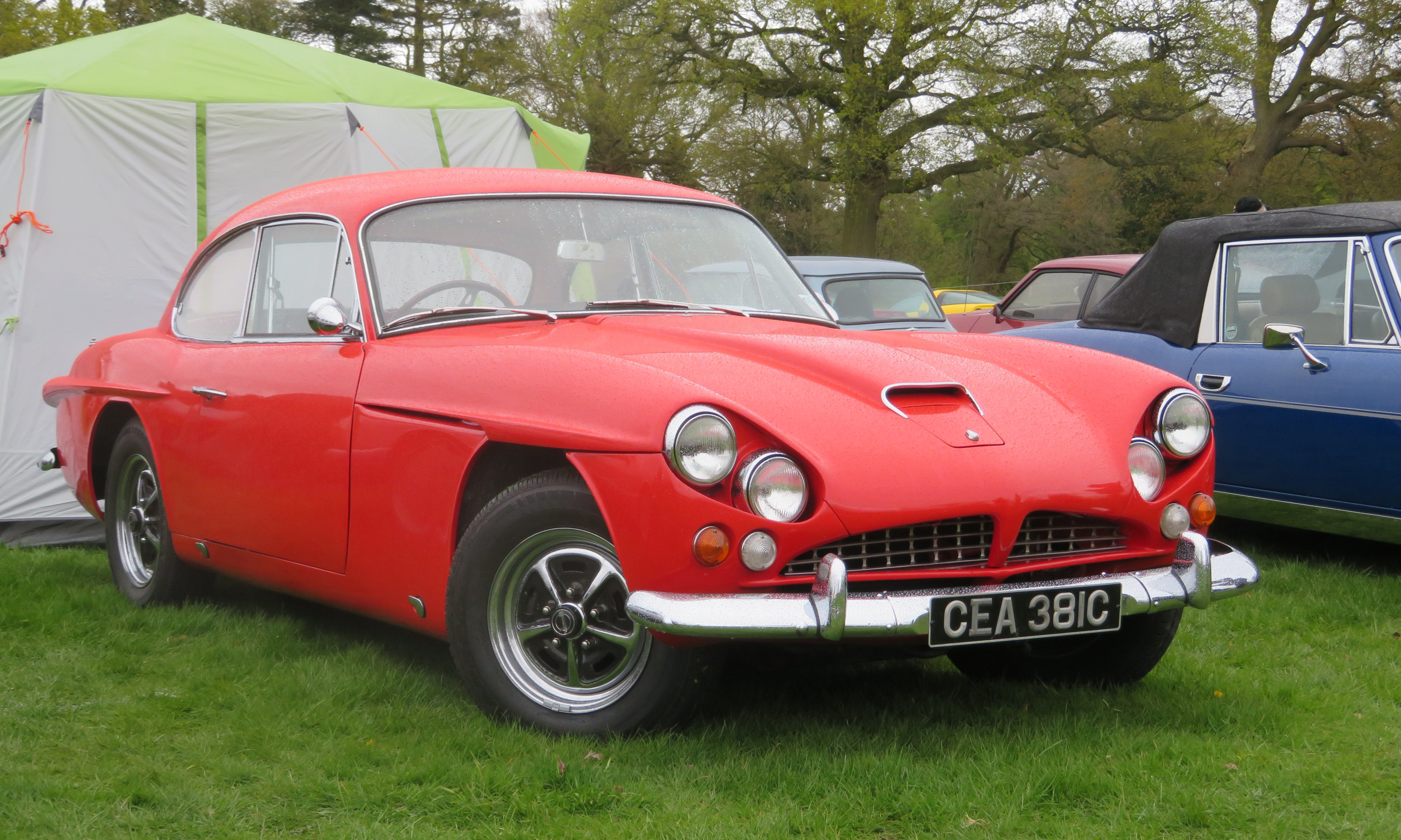 Jensen CV8 (1965)